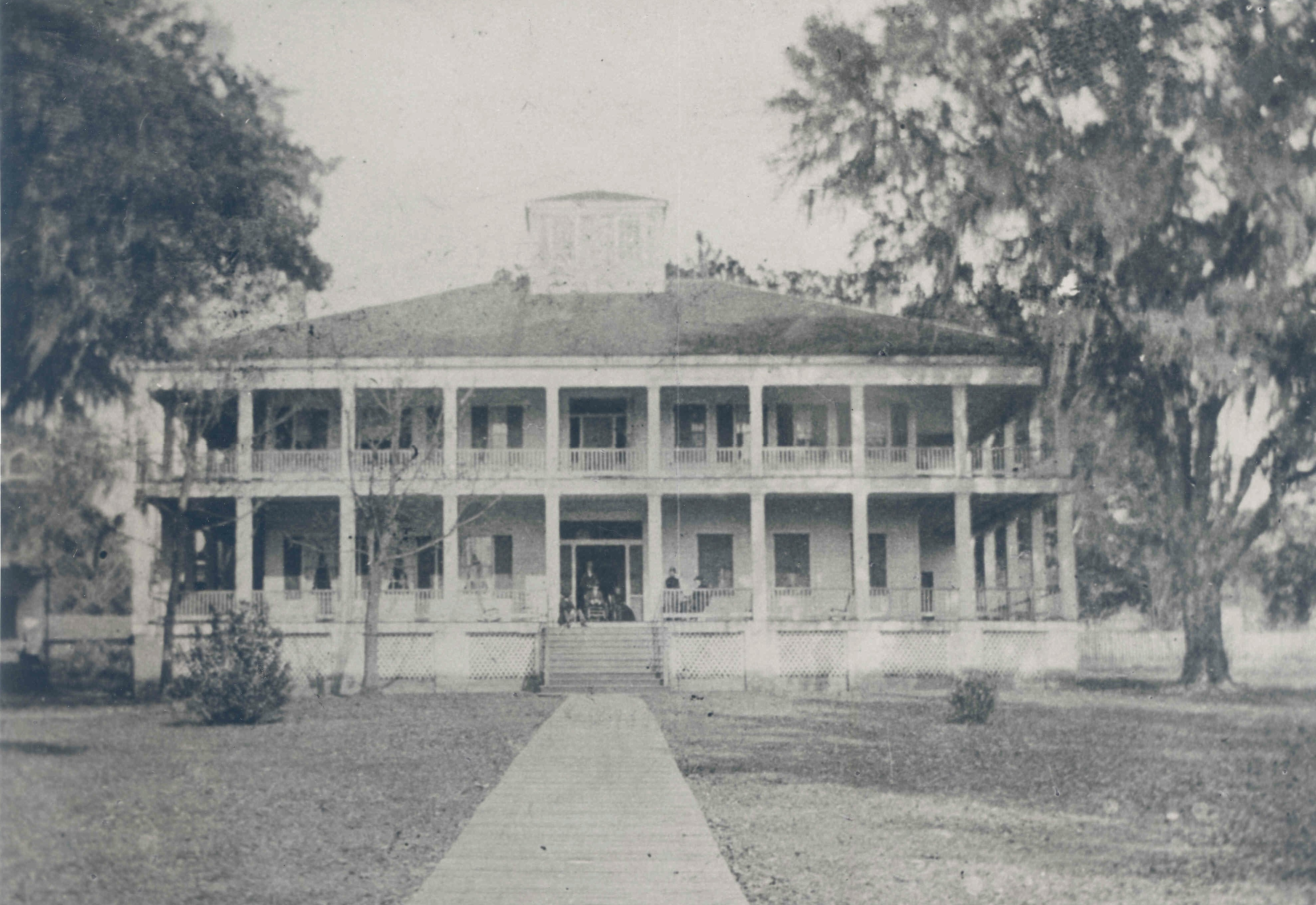 Howard Hotel (now Bayside Academy) in Daphne, Alabama circa 1900-1905. It was built in 1833 by Captain William Howard from Connecticut. It was hit several times by artillery during the Battle of Mobile Bay, but survived with minimal damage. William Dryer of Cleveland, Ohio purchased the hotel in 1894. At this time the name was changed to the Daphne Springs Hotel, and later, to the Dryer Hotel. The building was altered and reduced to 1 1/2 stories when converted from a hotel into a private residence in 1943.